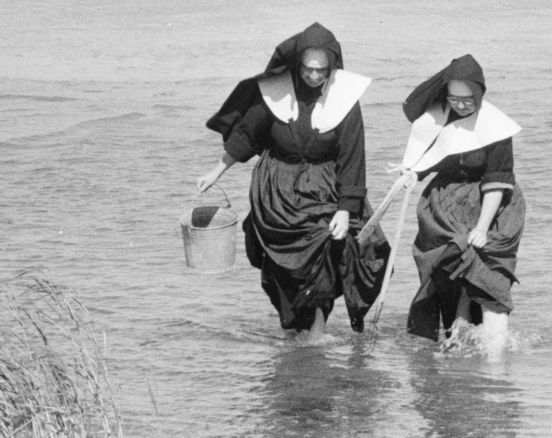 Two nuns wearing habits, wading in water.